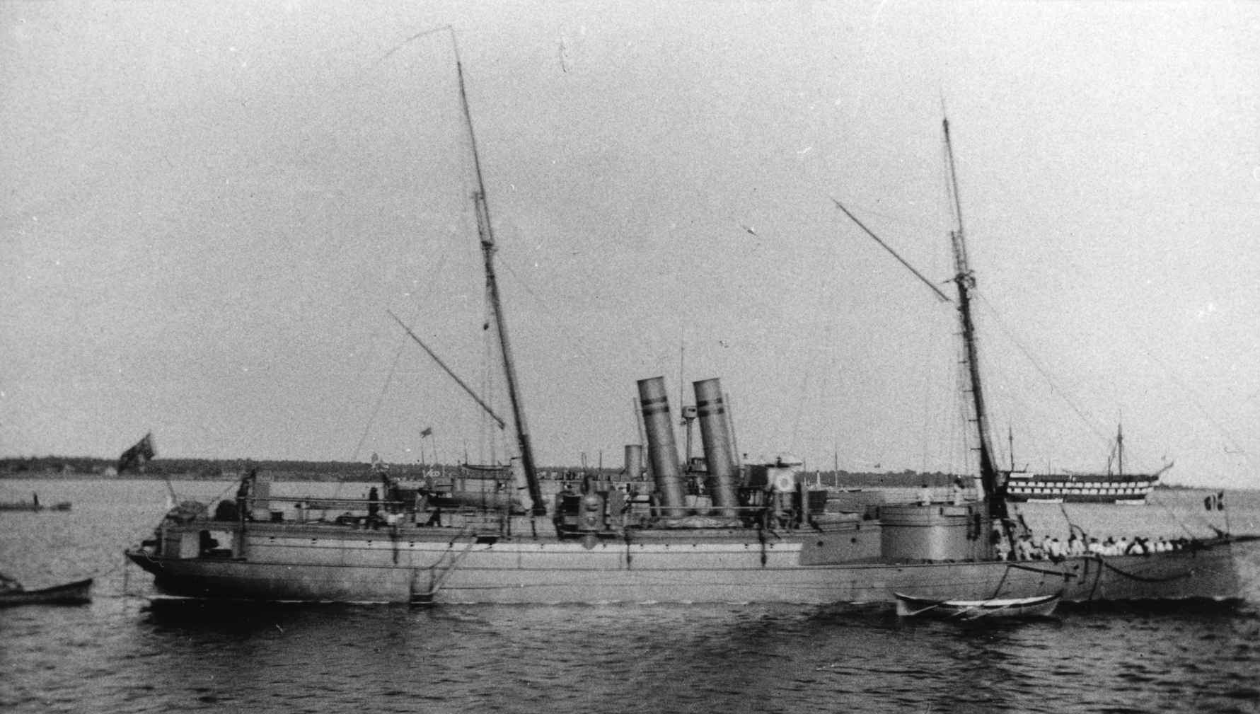 Swedish gunboat HMS Skuld 1895. The ship of the line Stockholm in the background. From Curt S. Ohlsson's collections.